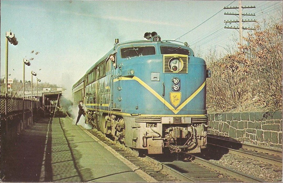 1978 postcard of D&H 19 leading a train at Newtonville station